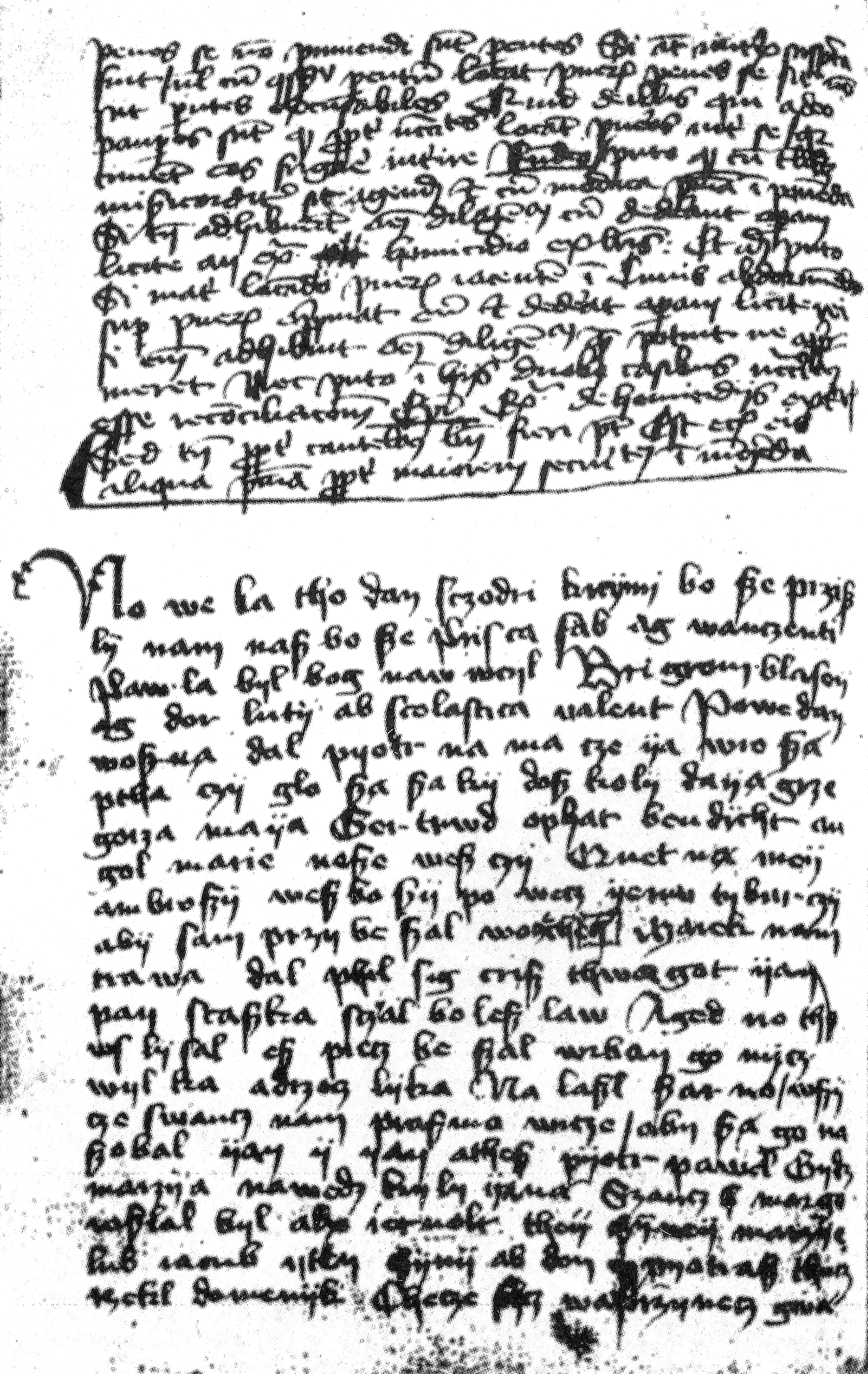 Manuscript of Cyzjojan płocki (cisiojanus), from about 15th century. Page 332v.